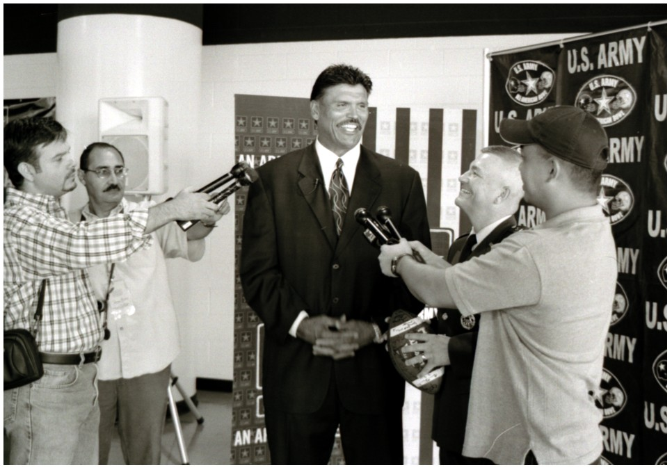 Pro Football Hall of Famer Anthony Muñoz talks with the local San Antonio, Texas media to promote the U.S. Army All-American Bowl (2004). Photo by Peter Rimar.